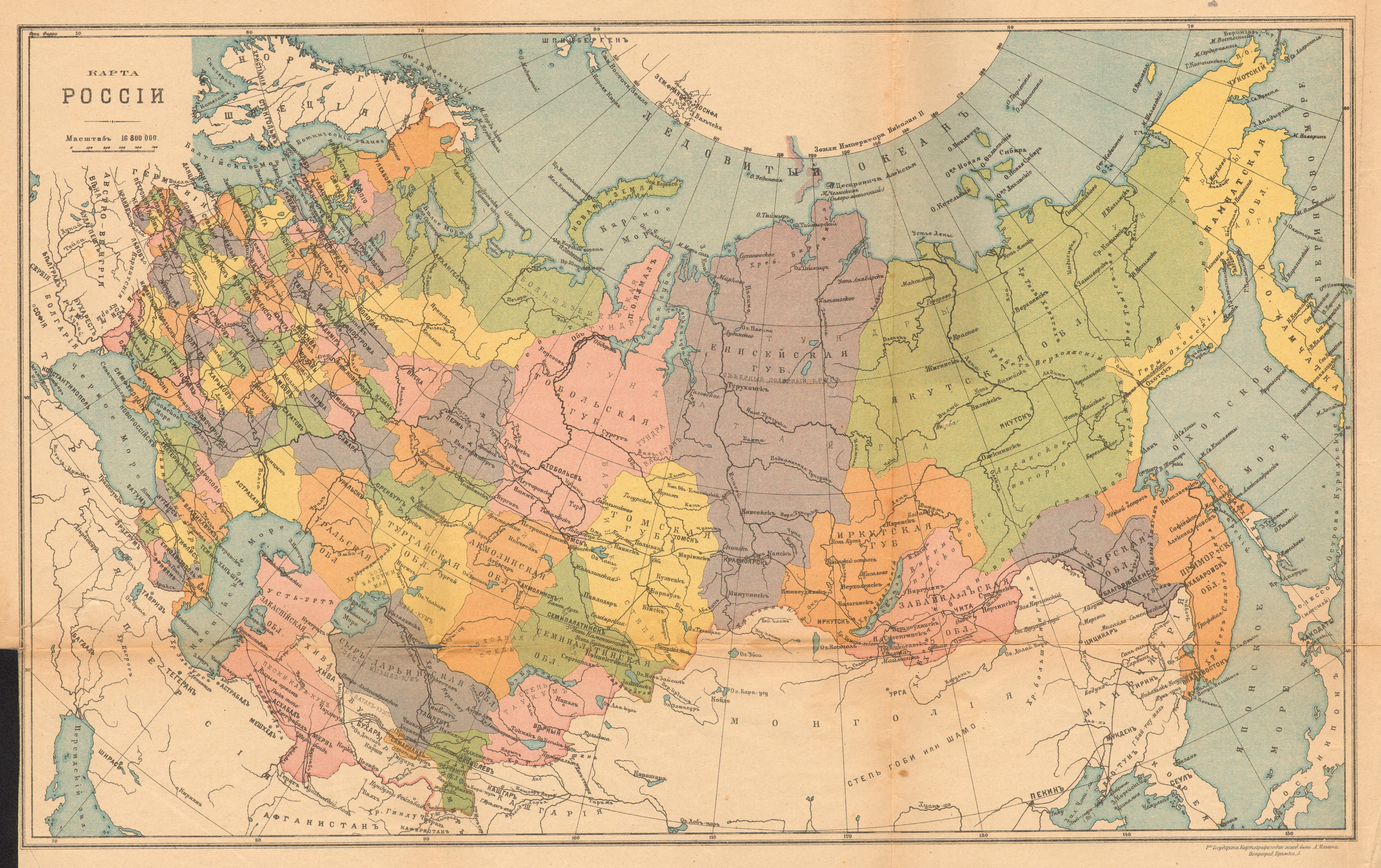 Map of the Russian Empire. 1914.